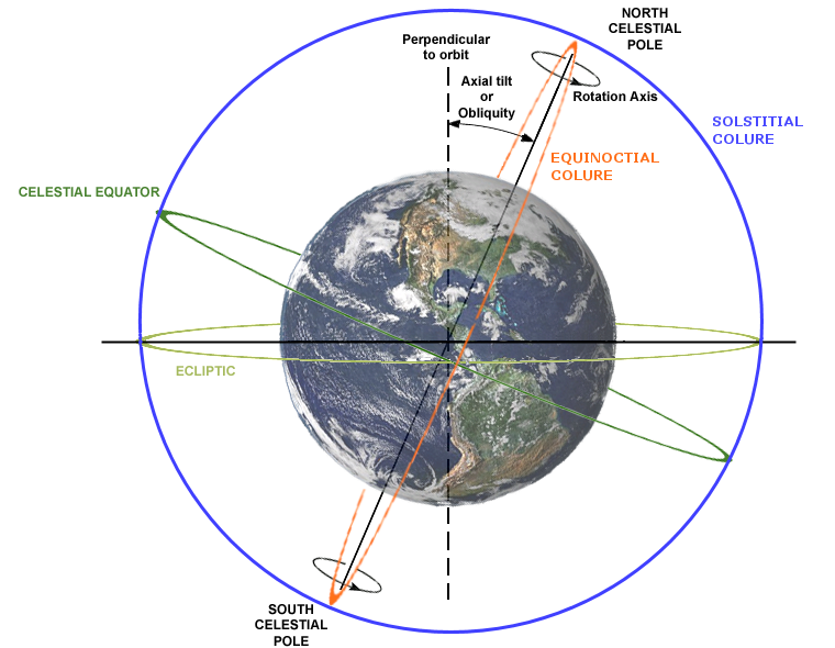 Equinoctial colure and solstitial colure. Description of relations between Axial tilt (or Obliquity), rotation axis, plane of orbit, celestial equator and ecliptic. Earth is shown as viewed from the Sun; the orbit direction is counter-clockwise (to the left).